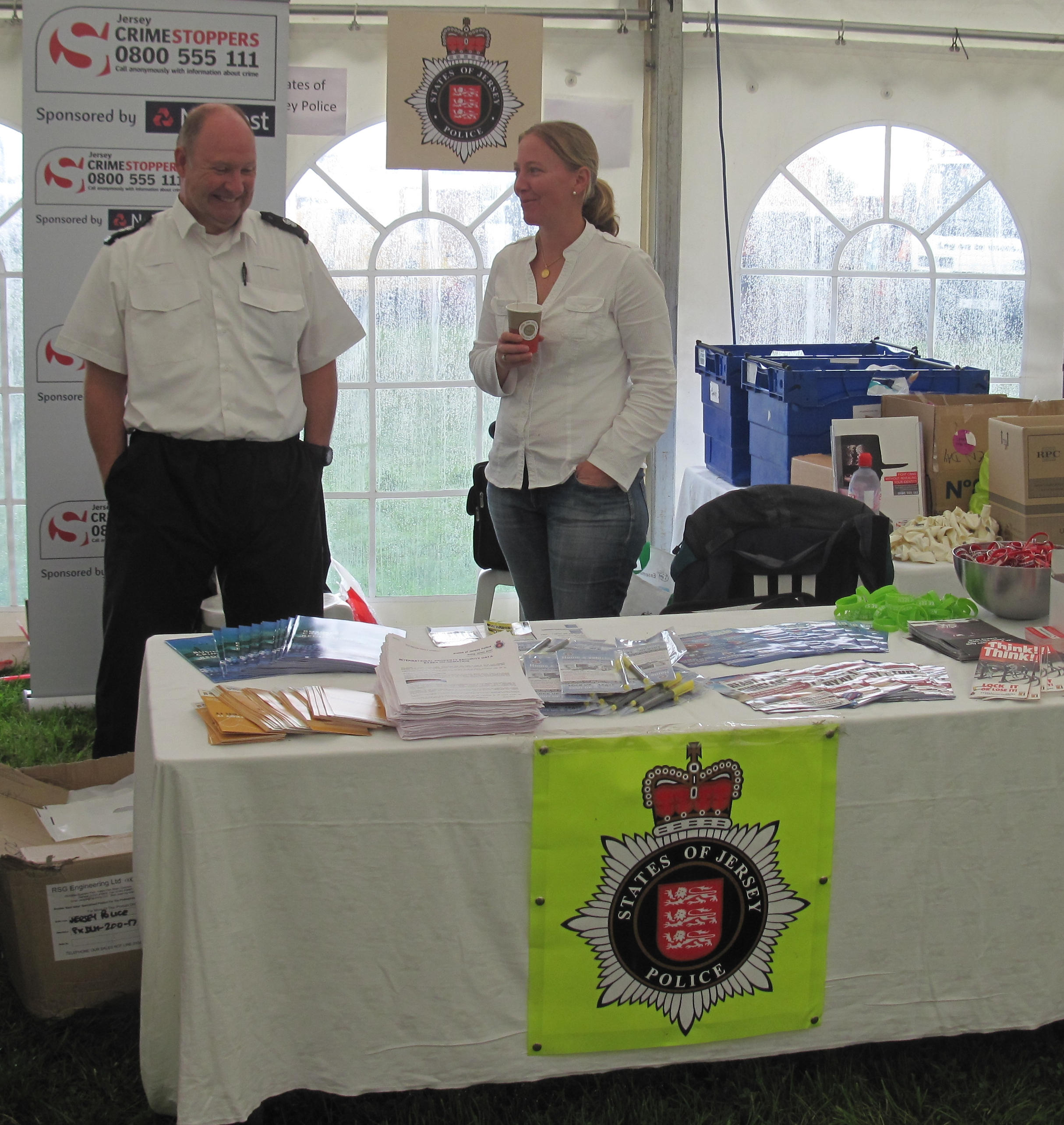 West Show, Jersey, 7-8 July 2012